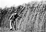 Screenshot of a hemp farm from Hemp for Victory.